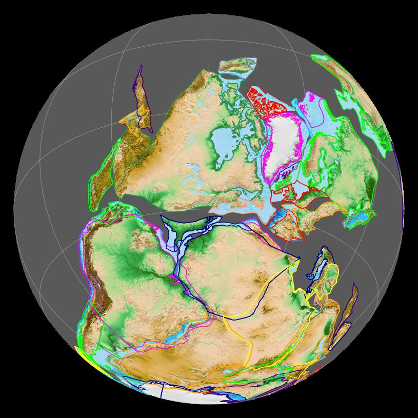 Laurasia and Gondwana during the closure of the Rheic Ocean at 330 Ma. Made using GPlates: Citations: Golonka, J. (2007), Late Triassic and Early Jurassic palaeogeography of the world, Palaeogeography, Palaeoclimatology, Palaeoecology, 244(1-4), 297-307. Müller, R., M. Sdrolias, C. Gaina, and W. Roest (2008), Age, spreading rates, and spreading asymmetry of the world's ocean crust, Geochemistry, Geophysics, Geosystems, 9(Q04006), 19. Seton, M., R. Müller, S. Zahirovic, C. Gaina, T. Torsvik, G. Shephard, A. Talsma, M. Gurnis, M. Turner, and M. Chandler (2012), Global continental and ocean basin reconstructions since 200 Ma, Earth-Science Reviews, 113(3-4), 212-270. Torsvik, T., and R. Van de Voo (2002), Refining Gondwana and Pangea Palaeogeography: Estimates of Phanerozoic non dipole (octupole) fields, Geophysical Journal International, 151(3), 771-794. Wright, N., S. Zahirovic, R. D. Müller, and M. Seton (2013), Towards community-driven, open-access paleogeographic reconstructions: integrating open-access paleogeographic and paleobiology data with plate tectonics, Biogeosciences, 10, 1529-1541